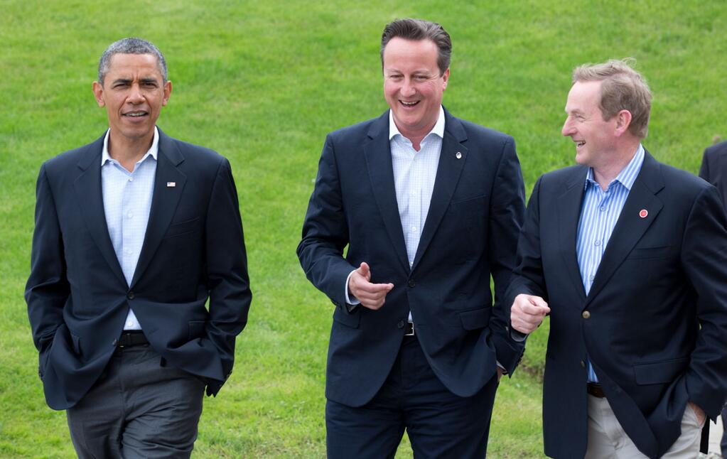 American President Barack Obama, British Prime Minister David Cameron, and Taoiseach Enda Kenny at the 39th G8 Summit in Enniskillen, County Fermanagh, Northern Ireland.